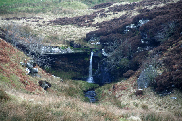 Sills Burn Waterfall on Sills Burn at Featherwood.